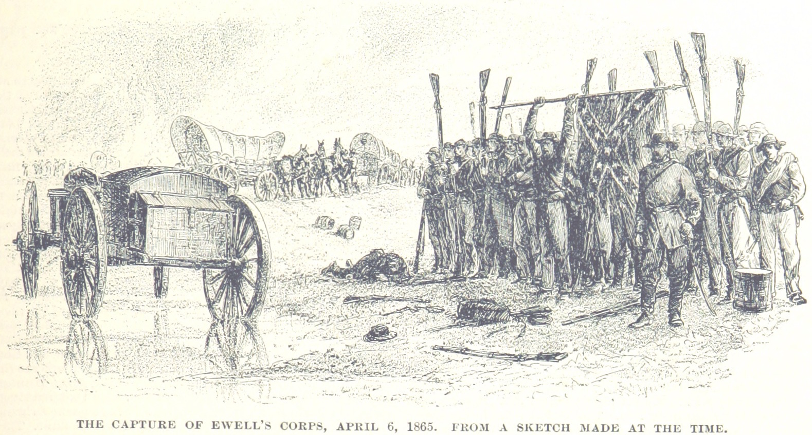 After the Battle of Sailor's Creek, most of Confederate general Richard S. Ewell's corps is captured.